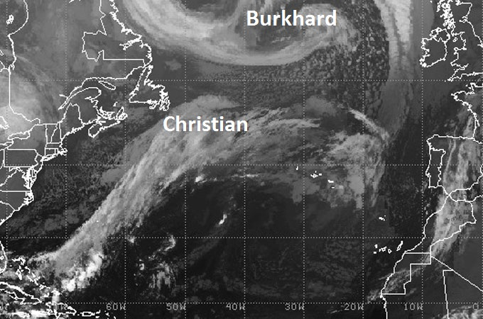 Satellite image from October 26, 2013 at 1012 UTC showing the position of the St. Jude Storm (Storm Christian) at its inception over Northern Atlantic. At the top of the image, the loew pressure "Burkhard" is much better developped.